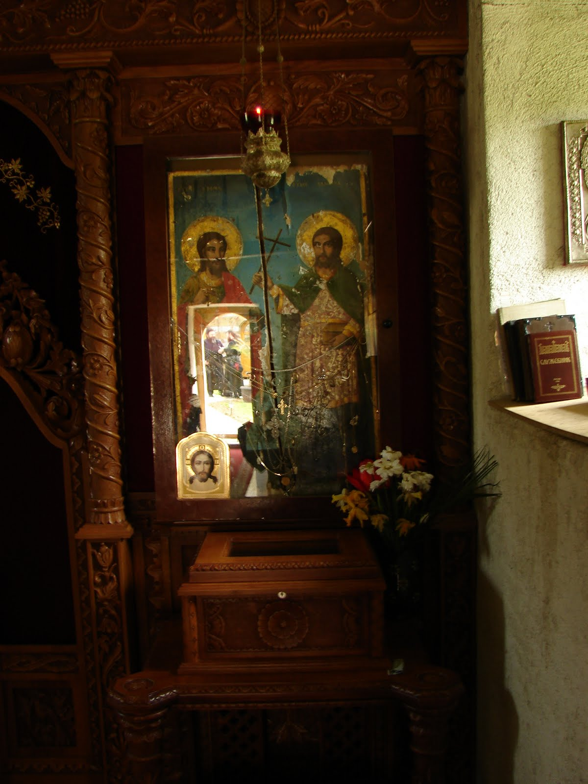 Zočište Monastery, salvaged old icon from the original 14th century church destroyed by Albanian mob in 1999.